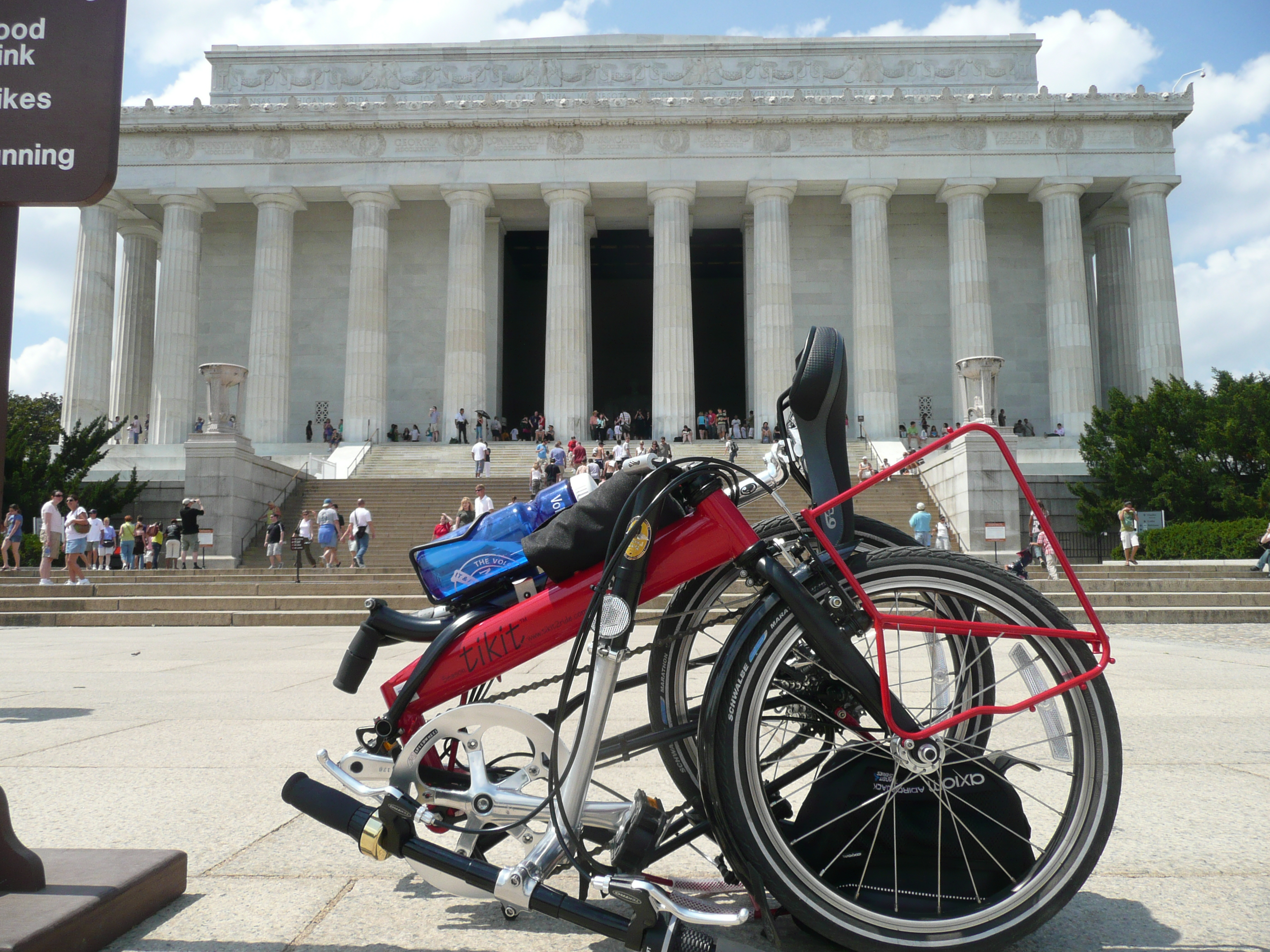 Folded Red Size-Medium Hyperfold Tikit, near Lincoln Memorial, Washington, DC